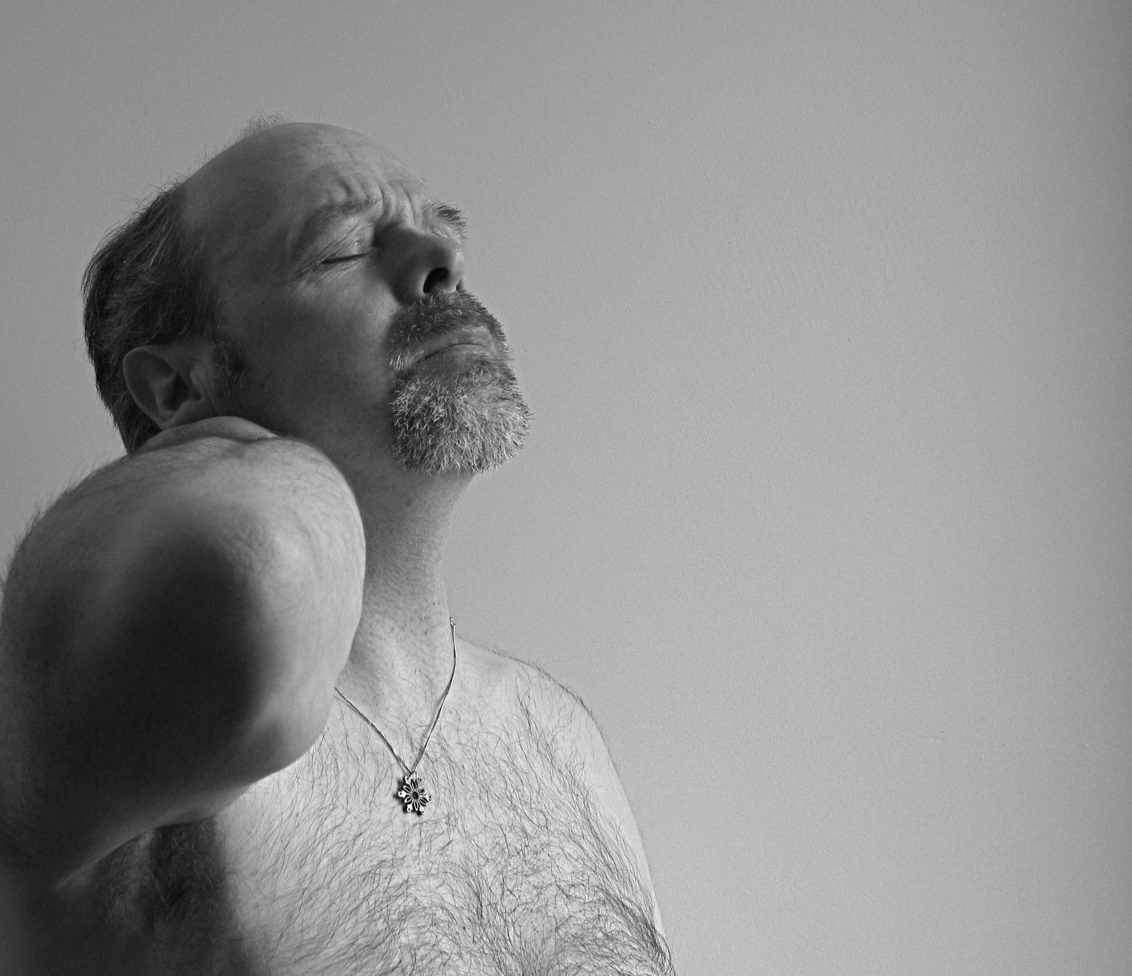 Quite literally.. Don't know what I did to it. Good job I've got a massage set up for tonight.